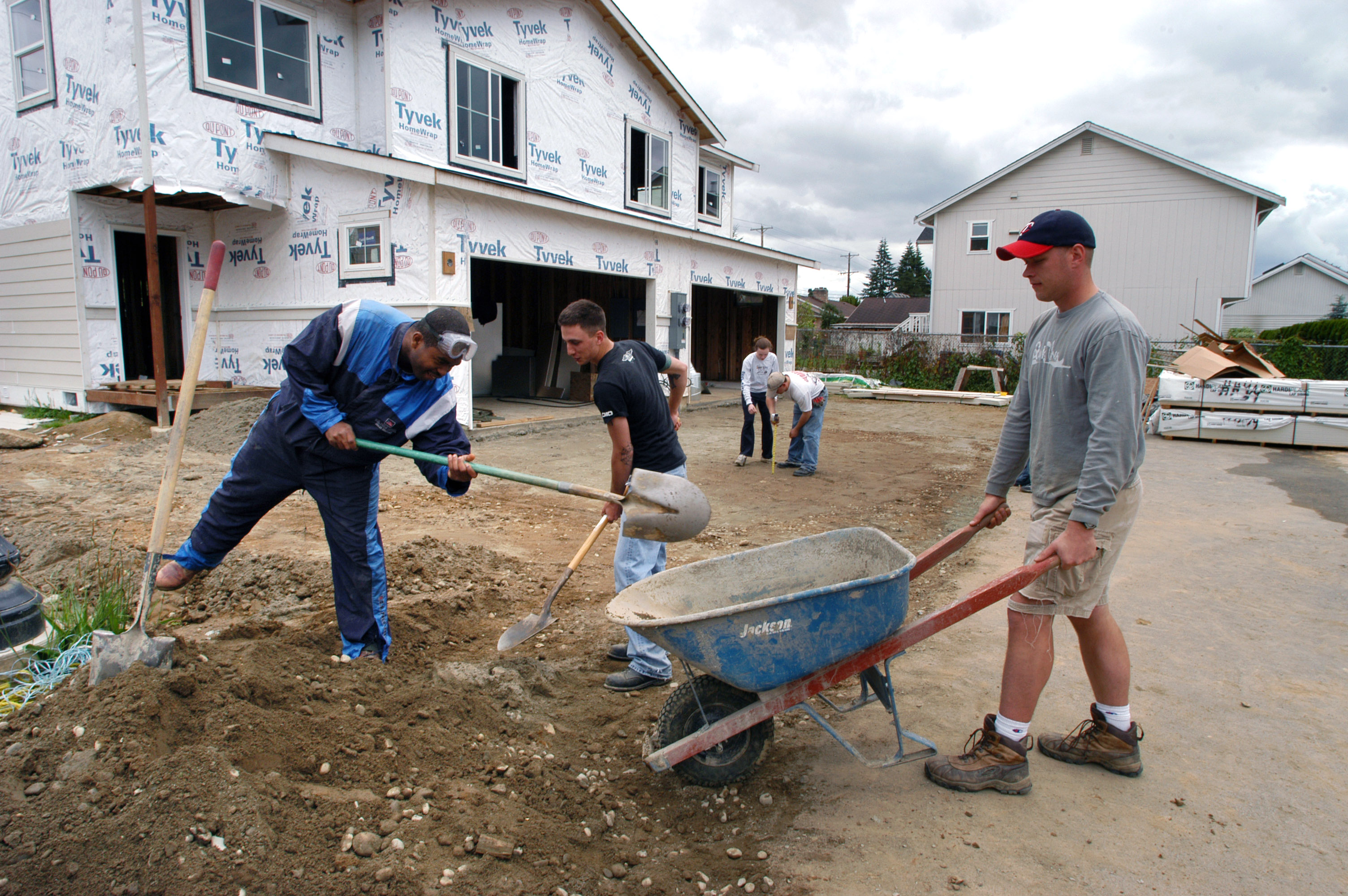 MARYVILLE, Wash. (June 16, 2007) - Sailors assigned to guided-missile destroyer USS Shoup (DDG 86) volunteer to help the less fortunate during a Housing Hope construction project. Sixteen Sailors spent two consecutive Saturdays assisting with the project. U.S. Navy photo by Mass Communication Specialist 2nd Class Douglas G. Morrison (RELEASED)